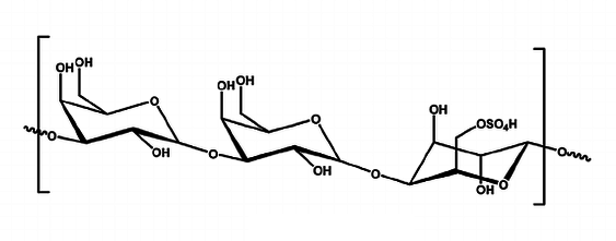 The structure of agaropectin.